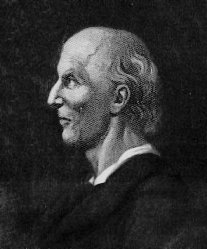 Gregorio Fontana (1735 - 1803)